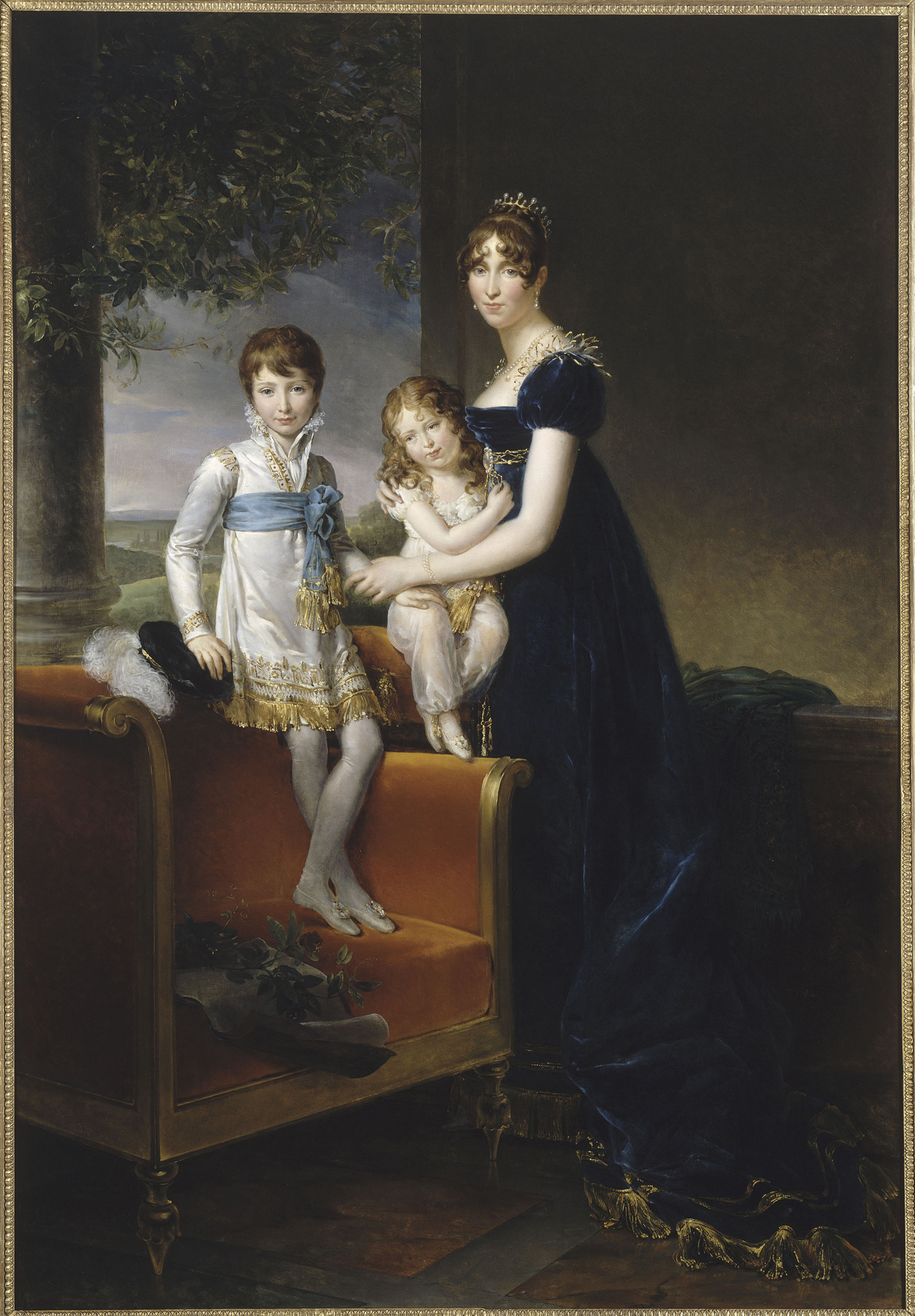 Hortense Beauharnais Bonaparte, the daughter of Empress Josephine and the wife of Napoleon's brother, Louis. With her are her two sons: Napoleon-Louis who died at age 31 after marrying Napoleon's brother Joseph's daughter Charlotte. He had no children. The younger child is Louis-Napoleon, who grew up to become Napoleon III, 1811.